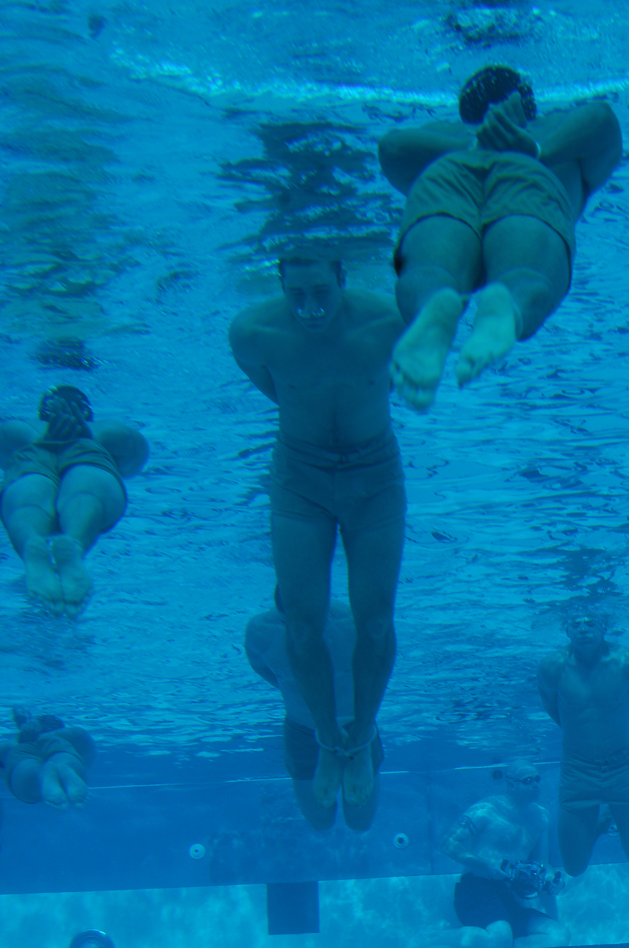 CORONADO, Calif. (Jan 25, 2008) Basic Underwater Demolition/Seals students swim 100 meters with bound hands and feet as part of their first-phase swimming test. The test is used as a tool to examine how comfortable each student feels underwater. U.S. Navy photo by Mass Communication Specialist 2nd Class Shauntae Hinkle (Released)